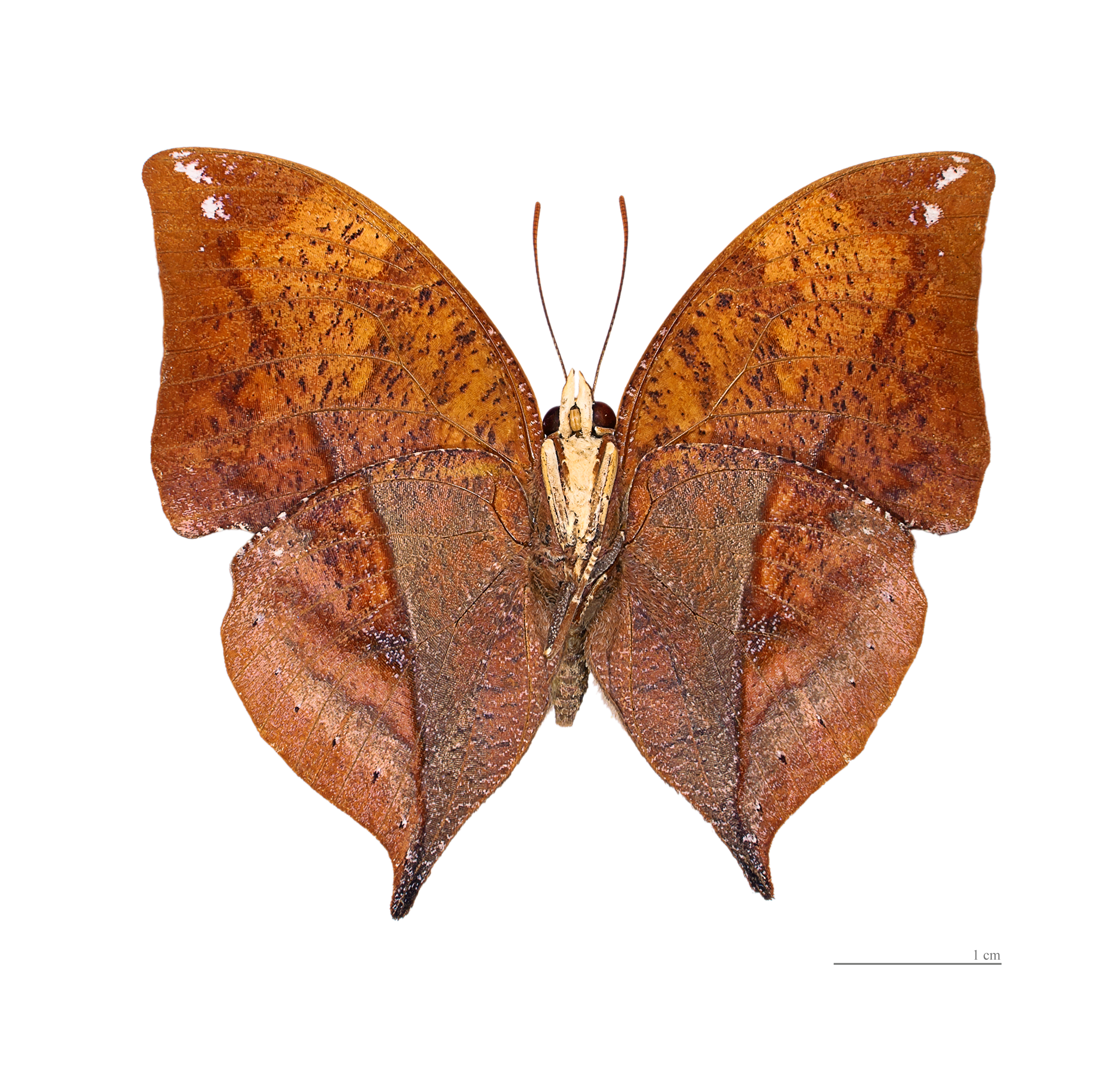 ♂ - △ Ventral side Locality : Route de Kaw PK40, French Guiana.